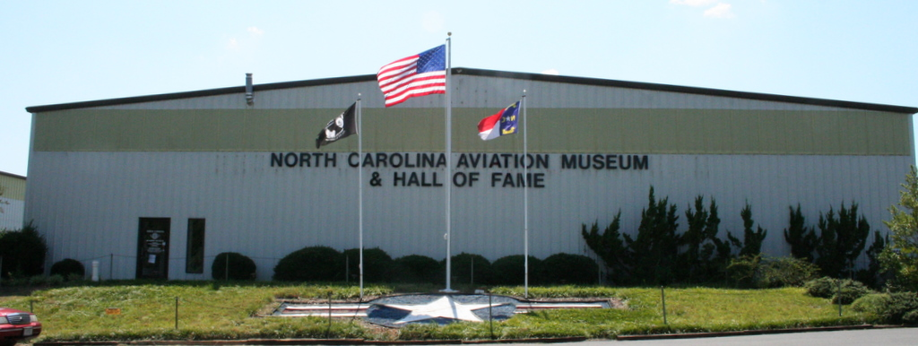 Exterior of the North Carolina Aviation Museum and Hall of Fame.